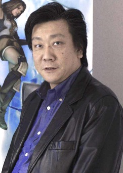 Cropped version of [1].